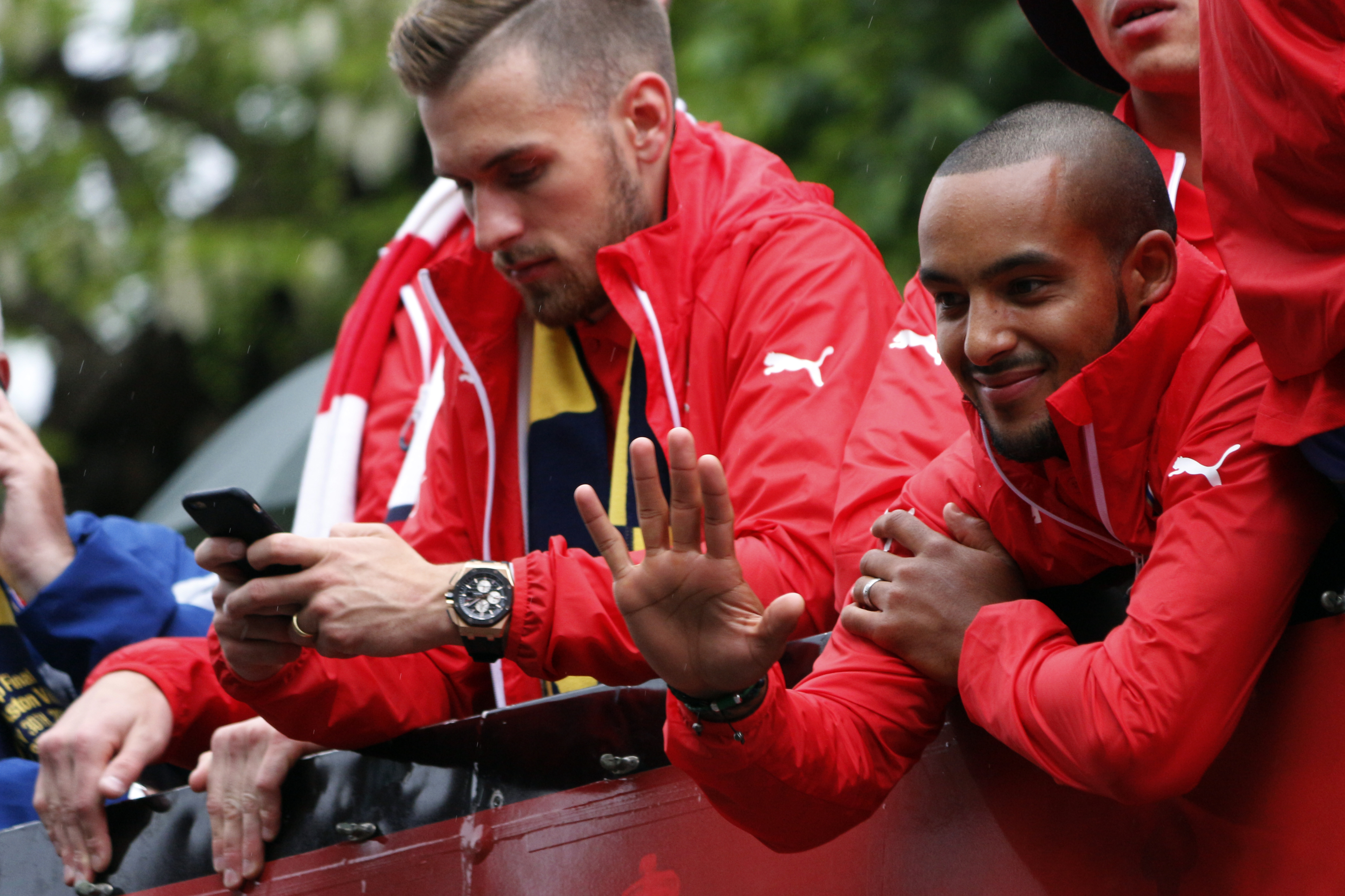 Arsenal FA Cup Winners Parade, 31st May 2015, Islington, London. Aaron Ramsey Theo Walcott